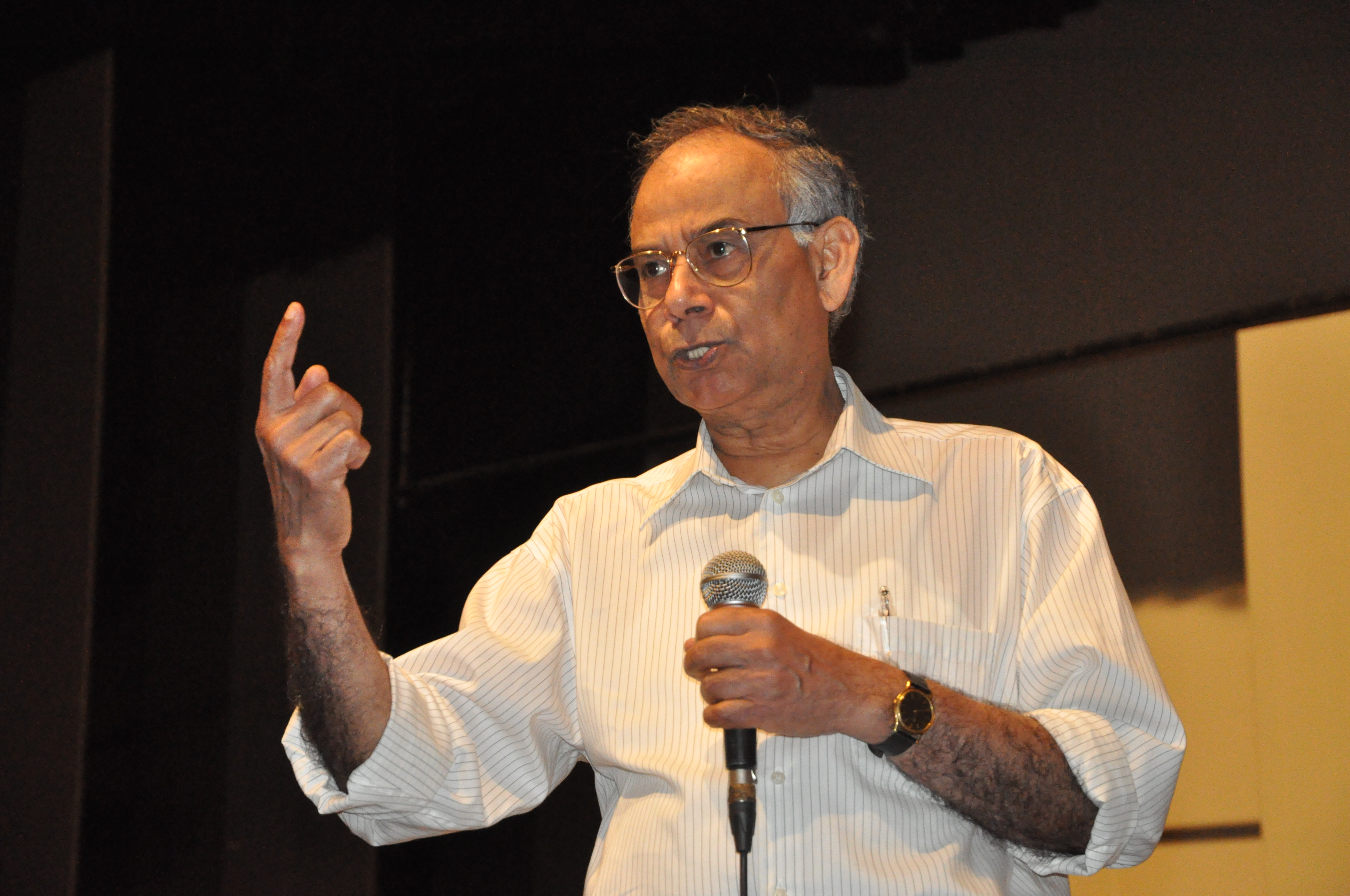 Ananda Mohan Chakrabarty (Bengali: আনন্দমোহন চক্রবর্তী), Ph.D. is an Indian-American microbiologist, scientist, and researcher, most notable for his work in directed evolution and his role in developing a genetically engineered organism using plasmid transfer while working at GE.